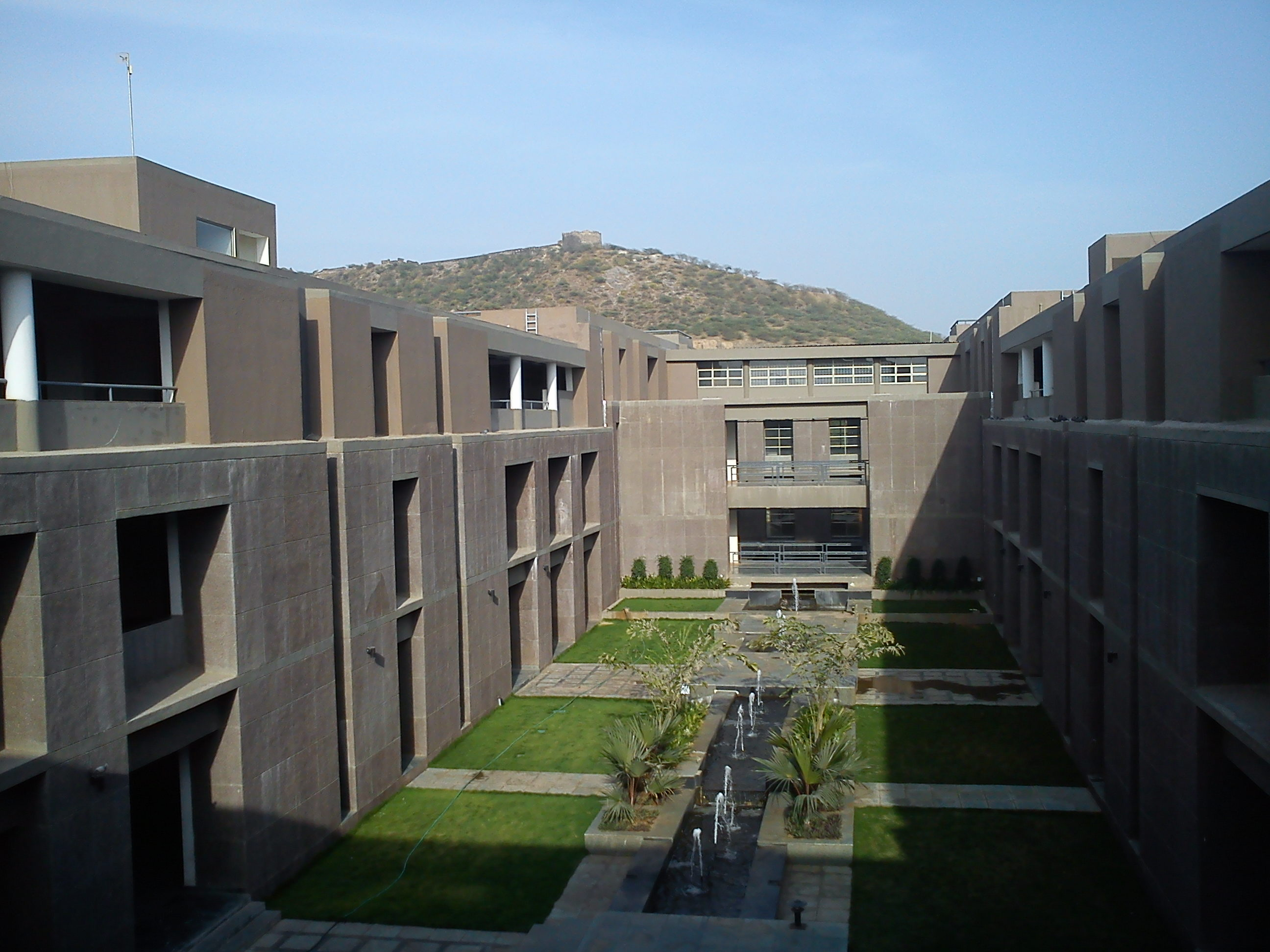 medical college in the bhuj district.